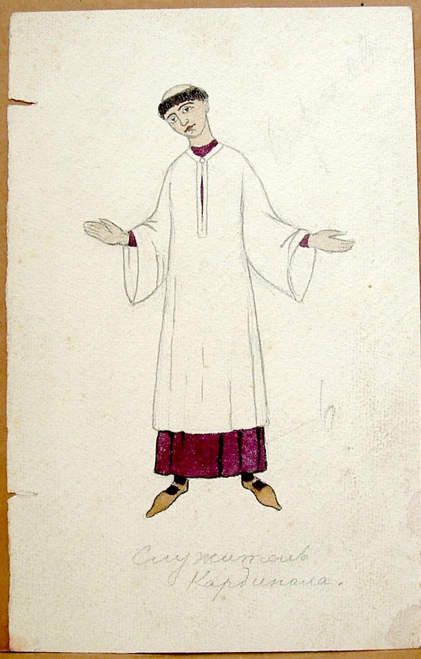 Bilibin, Ivan (Jean Bilibine) Two Costumes to the Miracle DEYSTVO O TEOFILE ("The Miracle of Theophilus") 1907 Medium: Gouache and pencil on paper Size in inches: a) 8-7/8" x 4-3/8"; b) 8-7/8" x 5-5/8" Size in centimeters: a) 22.5 x 11.1 cm; b) 22.5 x 14.3 cm Comments: Artist: Ivan Yakovlevich Bilibin (1876-1942). Initials and date on front of one costume. Unframed. DEYSTVO O TEOFILE ("The Miracle of Theophilus"): Text by Rutebeuf. Translation by Aleksandr Aleksandrovich Blok (1880-1921). STARINNY TEATR ("Antique Theater") of Nikolay Nikolaevich Evreinov (1879-1953) and Baron N. V. Drizen. Producer A. A. Sanin. See futurist almanac STRELETS ("Archer") page 3